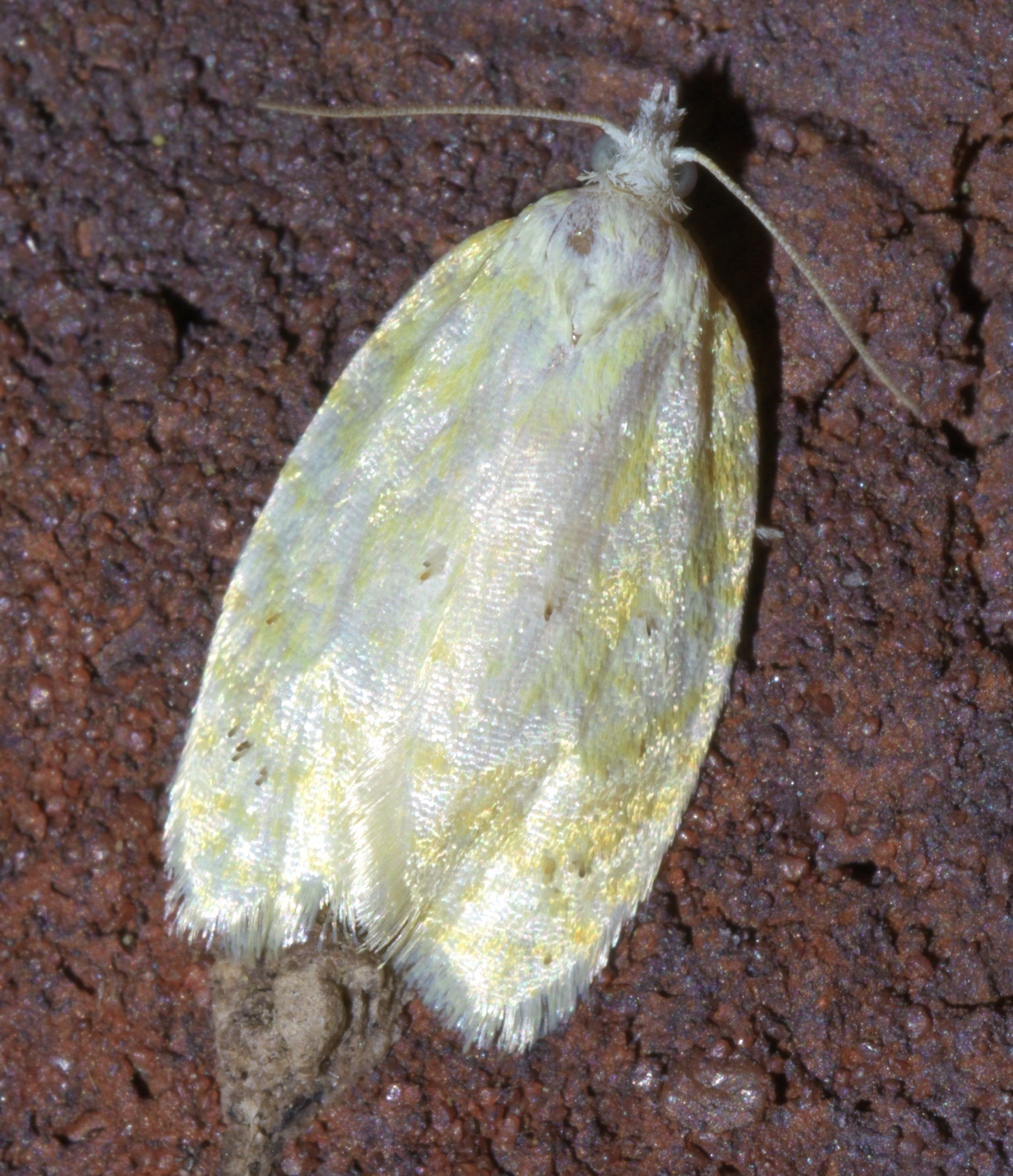 Acleris semipurpurana, oak leaftier moth, Size: 8.5 mm, ID Confidence: 86